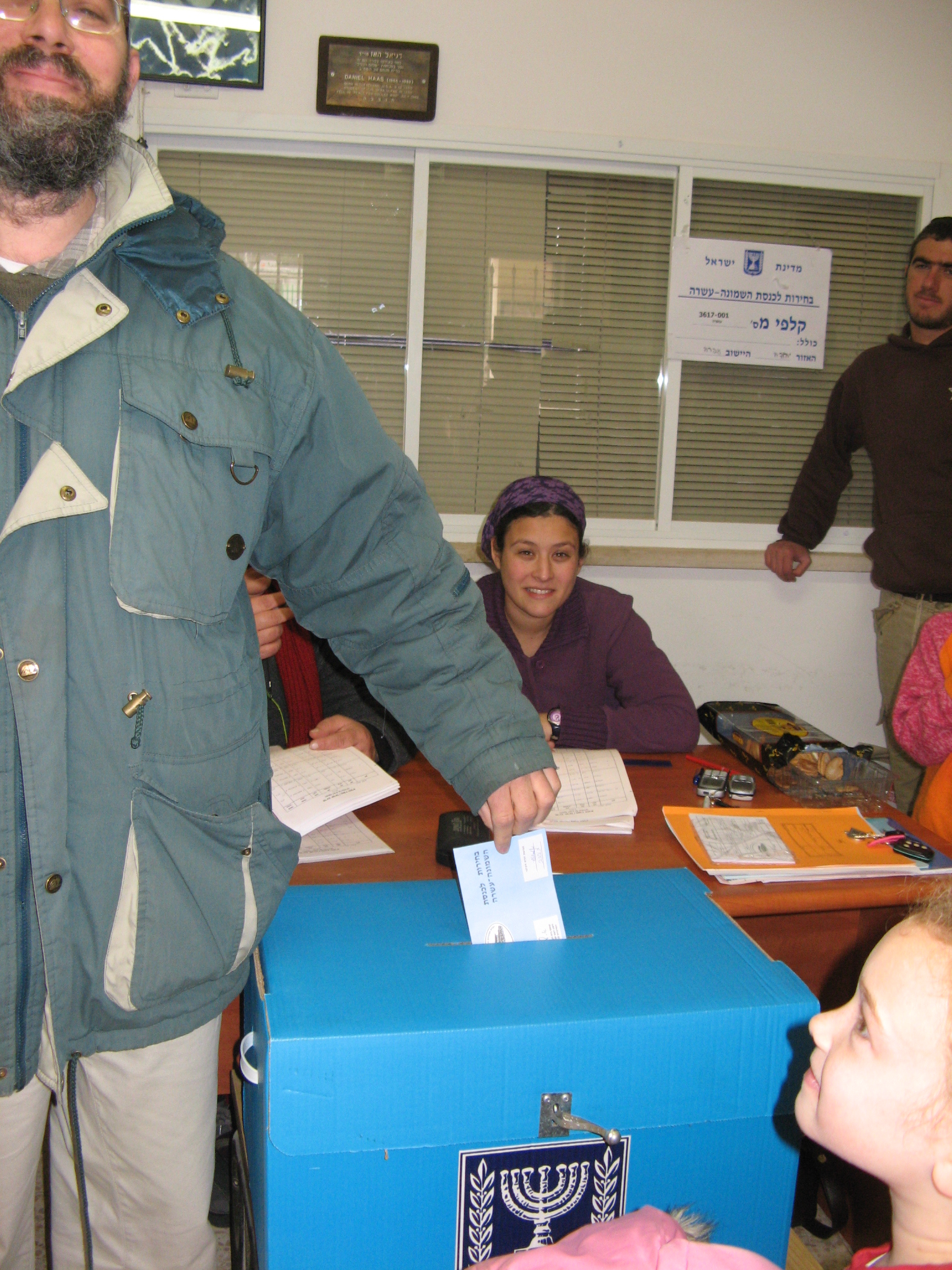 Person voting in Israel 2009 elections